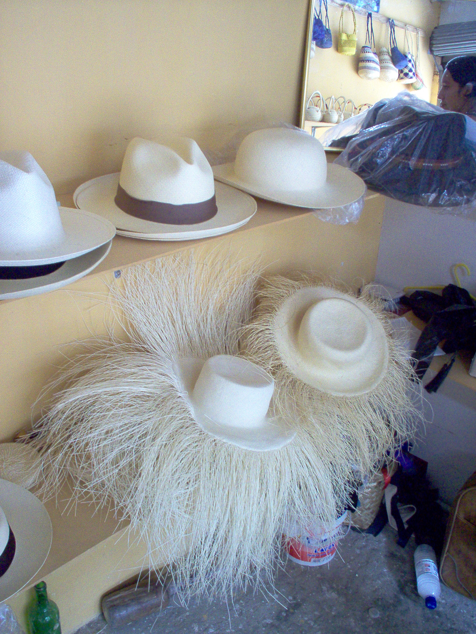 Panama hats at different stages of their fabrication. Montecristi, Ecuador.